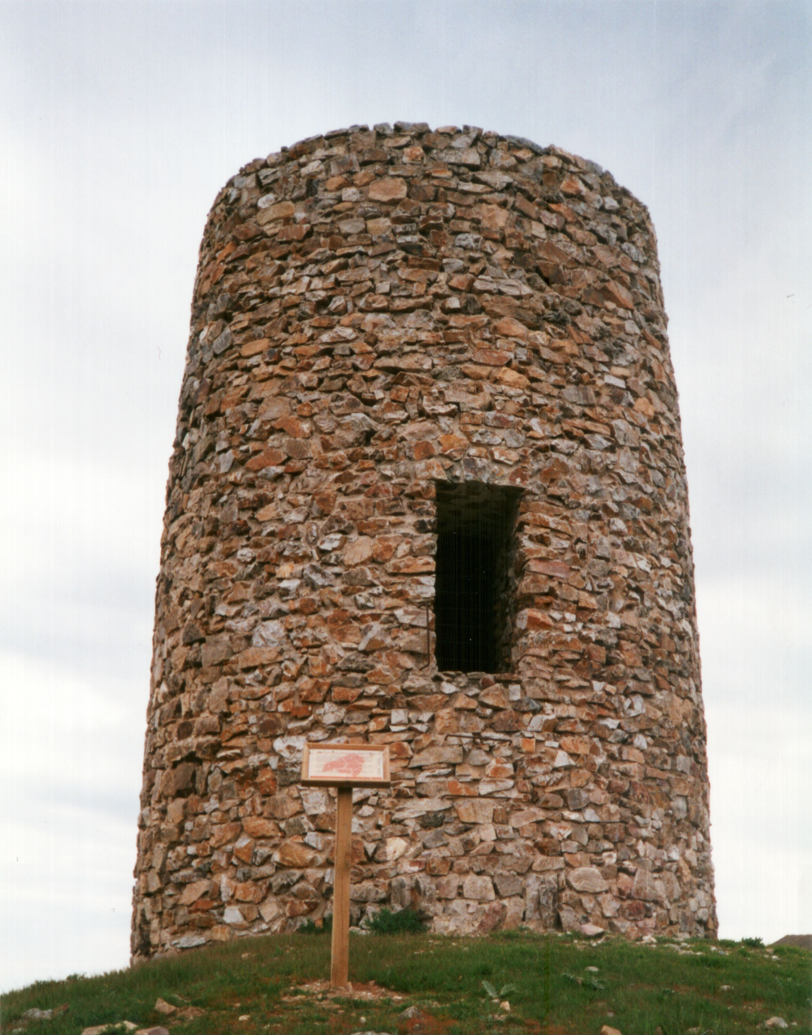 Islamic watchtower of El Berrueco, Madrid (Spain).